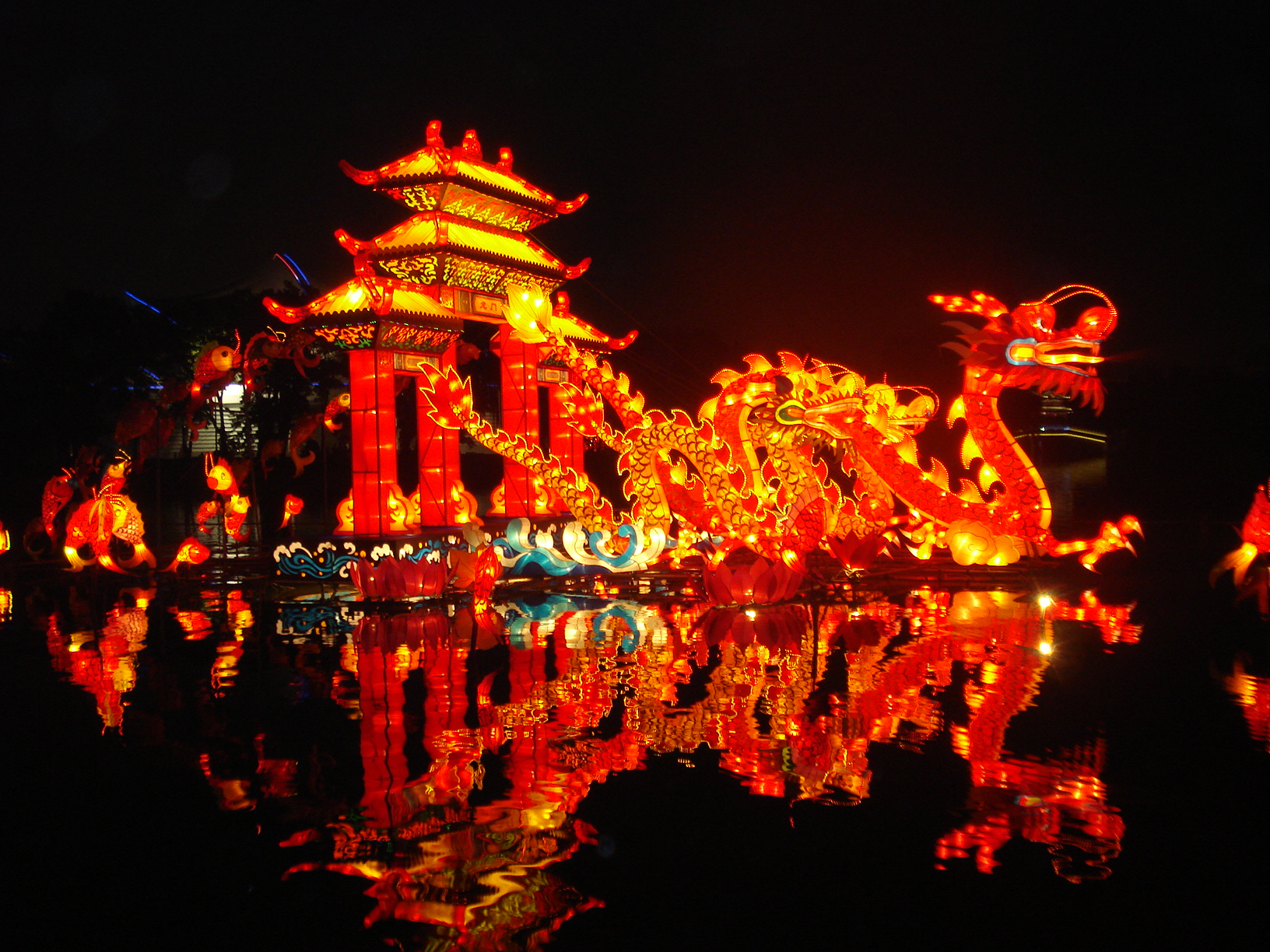 Chinese Dragons at the Longtan Park in Beijing at night.